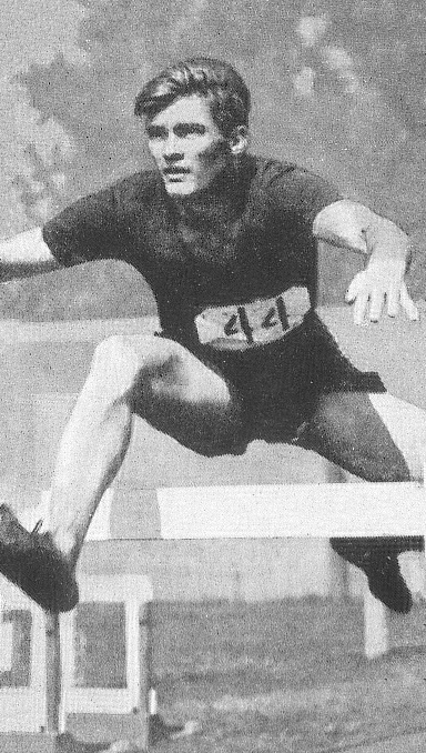 W.A. & A.C. Churchman cigarette card of Forrest Towns. Card no. 50 of a series of 50 cards titled "Kings of Speed"